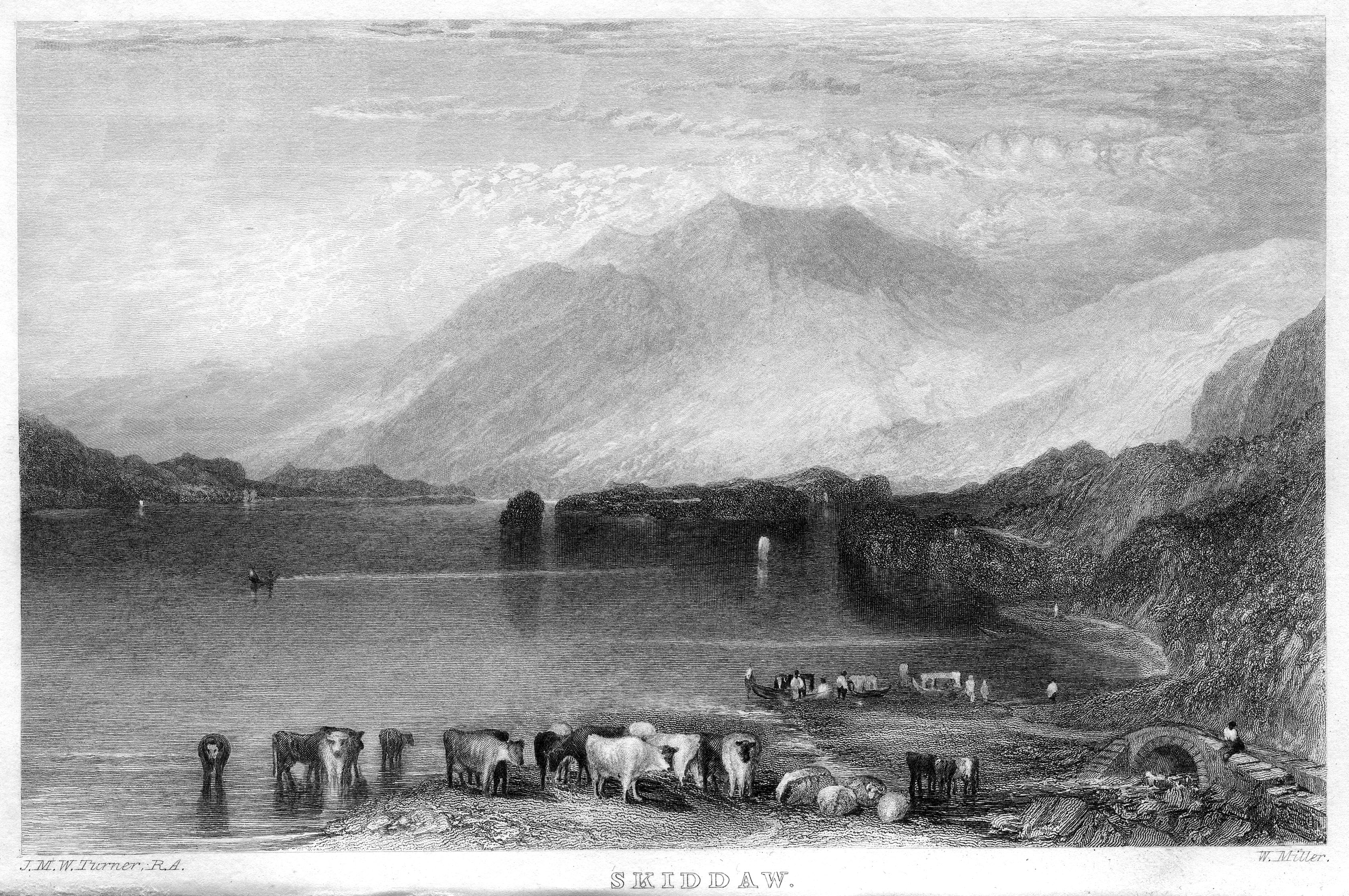 Skiddaw (Rawlinson 513) engraving by William Miller after Turner (Miller paid £57-0-0 in xii 1833 for engraving), published in The Poetical Works of Sir Walter Scott, Bart. Vol xi. Each Volume to have a Frontispiece and Vignette Title-page from designs taken from real scenes by J.W. Turner, R.A. Edinburgh: Robert Cadell, Edinburgh; Whittaker, Treacer, and Arnot, London; John Cumming, Dublin 1833-1834